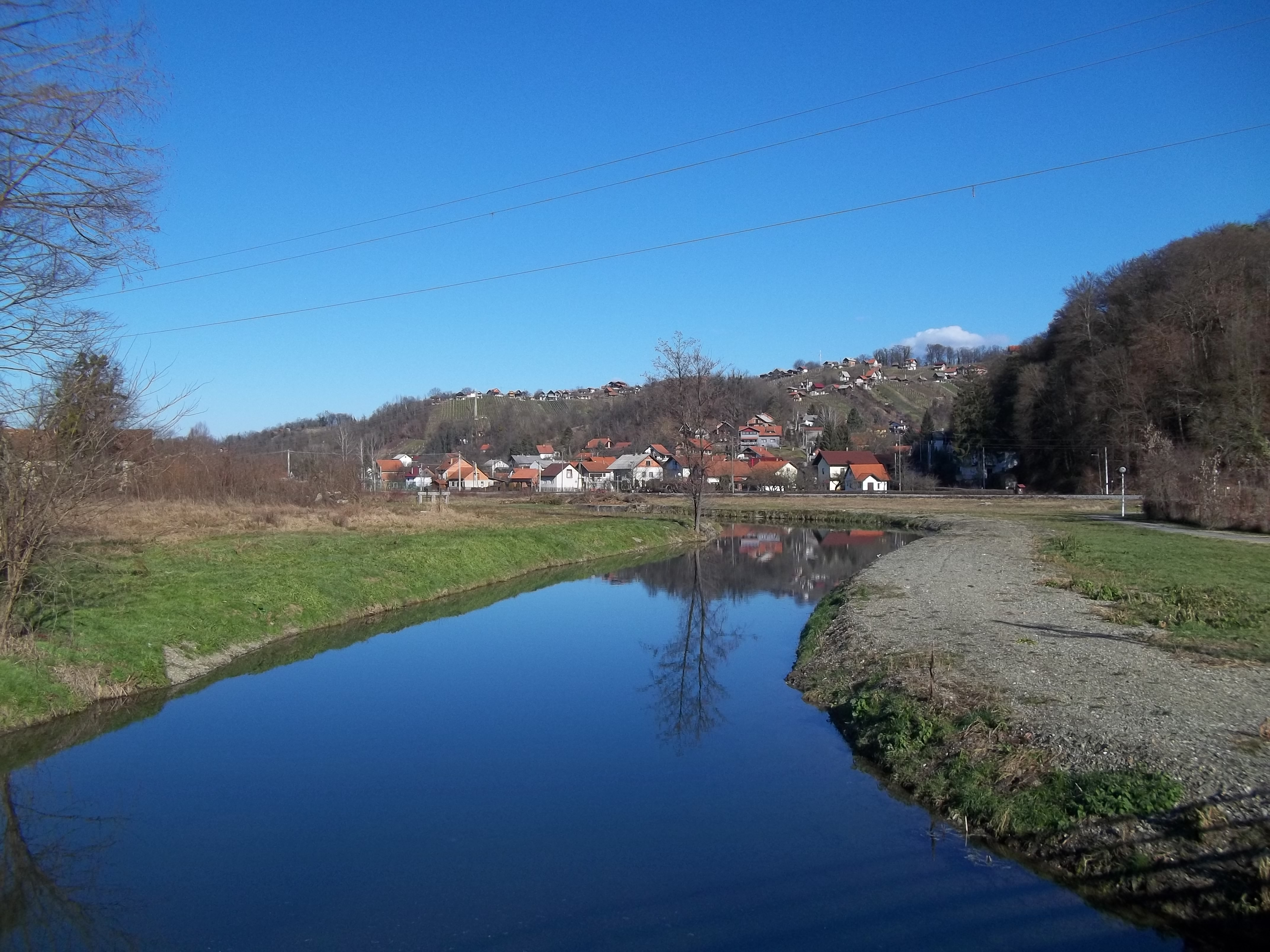 Valley of the creek "Vidak" with the settlement under the forest of Kamenjak hill in the background